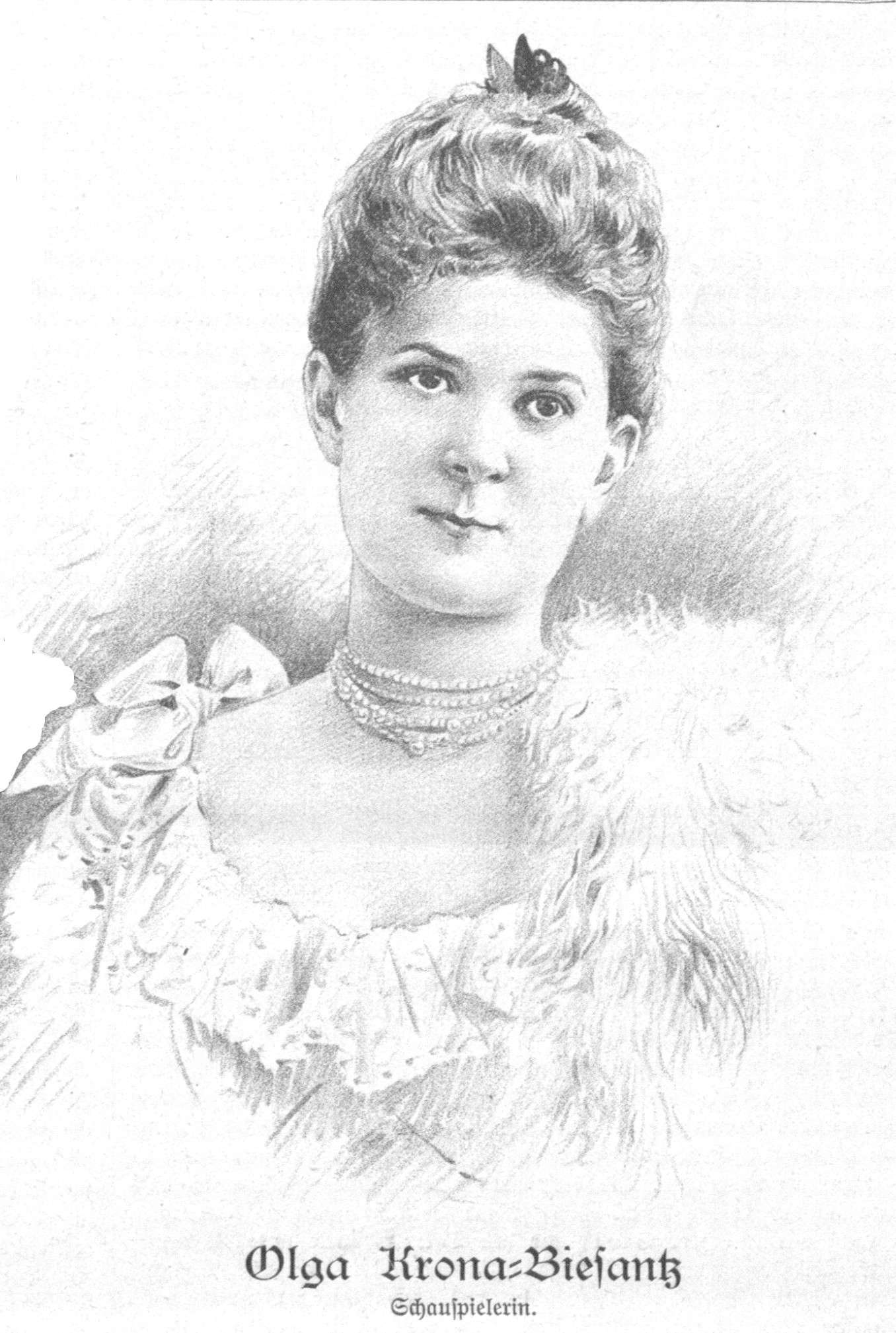 Portrait of Olga Krona-Biesantz, Austrian actress active around the turn of the 19th/20th century.